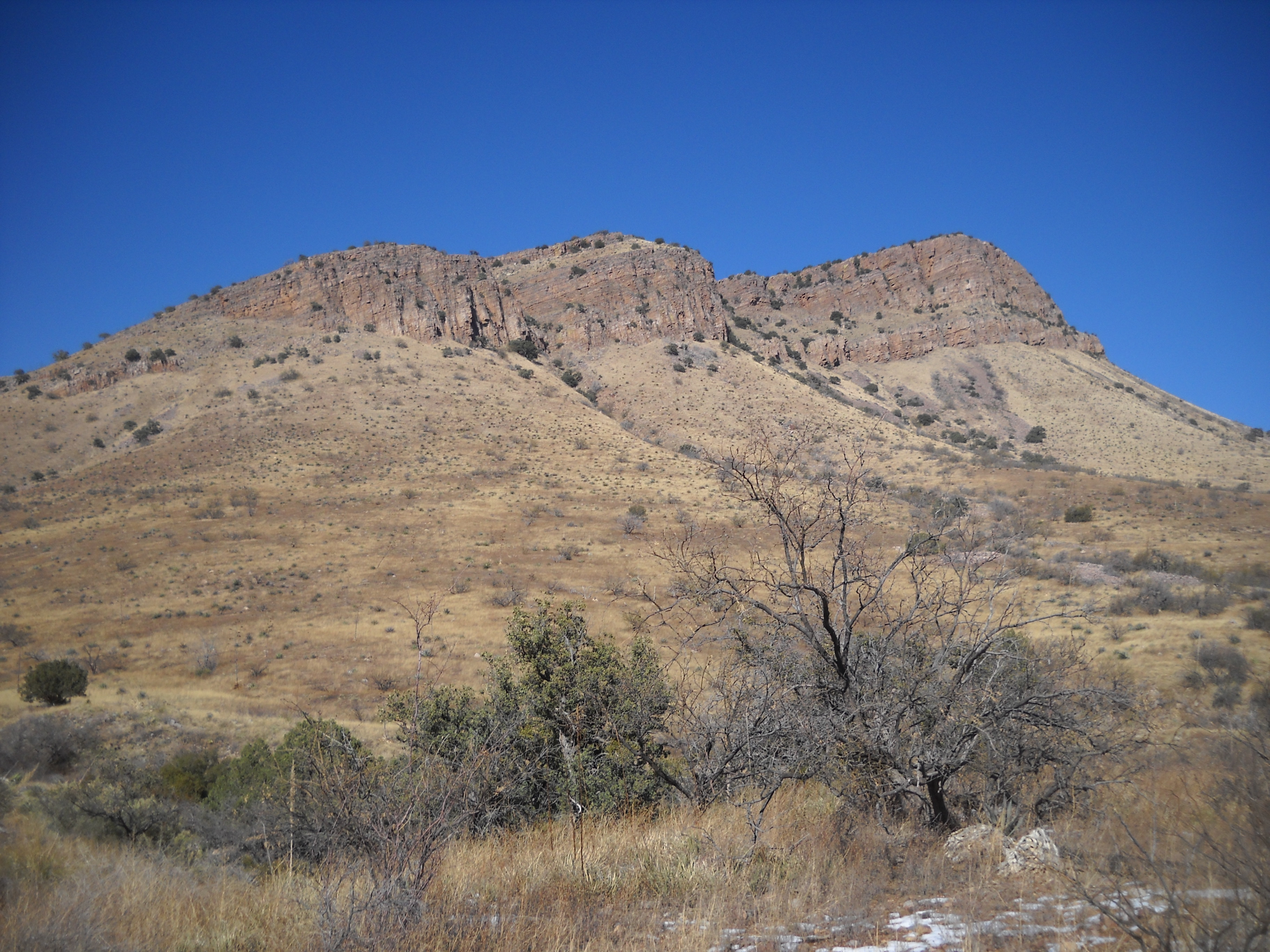 Whetstone Mountains in Cochise County, Arizona.